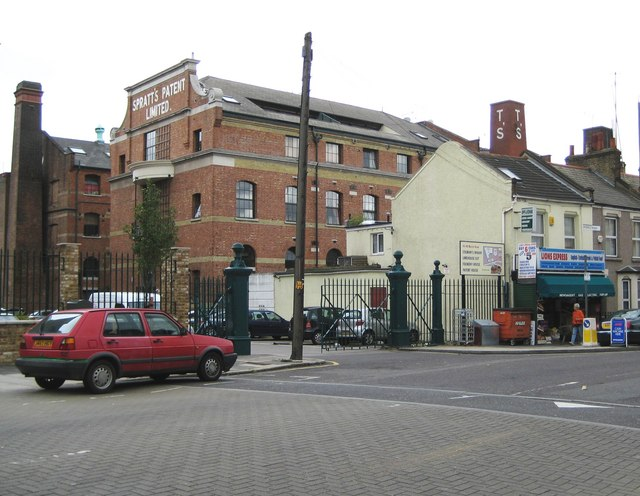 Poplar: Former Spratts' Pet Food factory (1) Spratts built their factory in Poplar, backing onto 934886, in 1899. The proximity to the canalized cut allowed fish heads to be brought in directly from the docks for processing into pet food. This is the main factory entrance in Morris Road. Judging by the fact that only the T and the S remain out of the Spratts name the chimney at the right must have been considerably taller at one time! The factory has now been converted into flats.